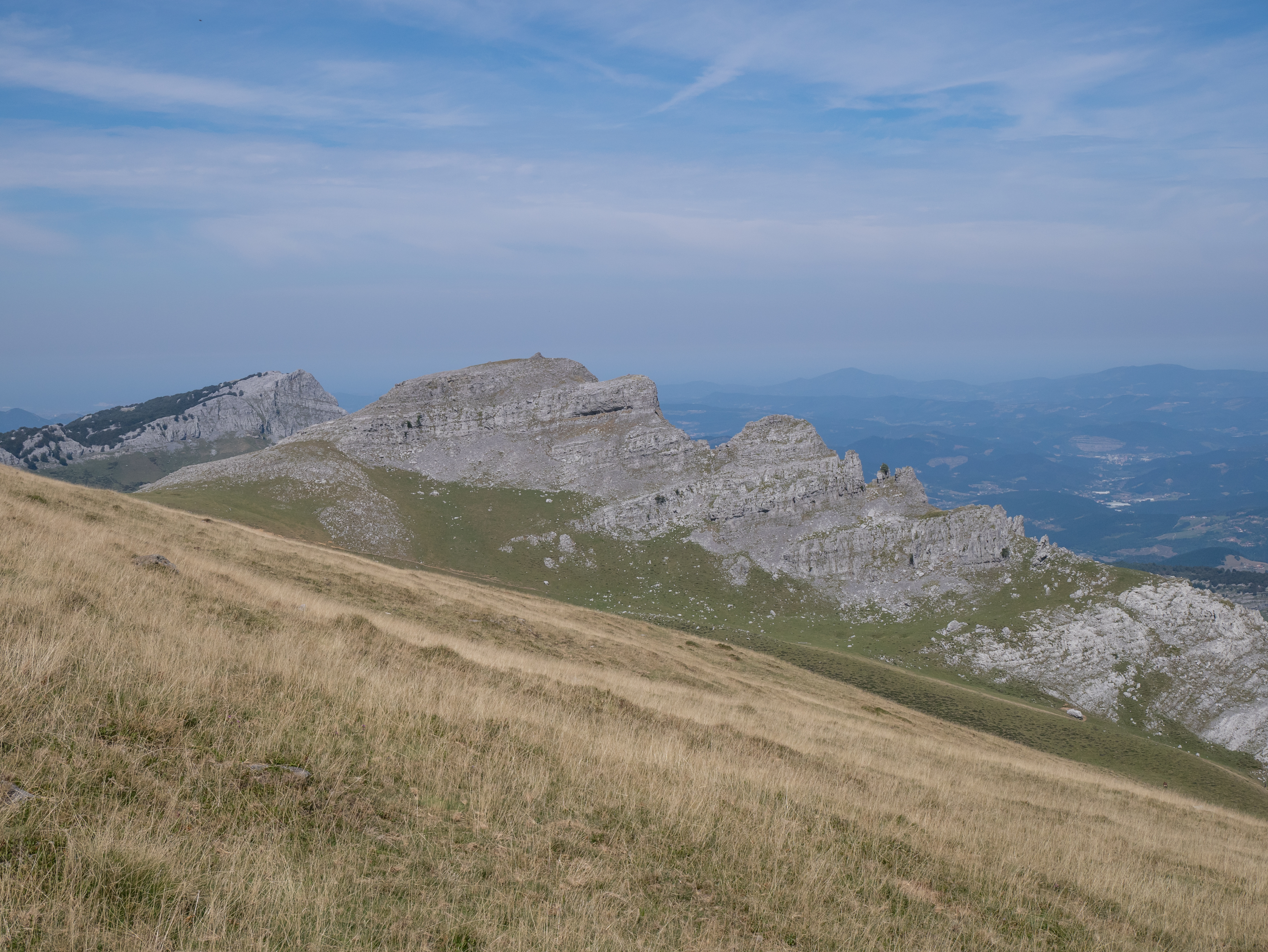 Summit of Aldamin in the Gorbea mountain range. Basque Country, Spain